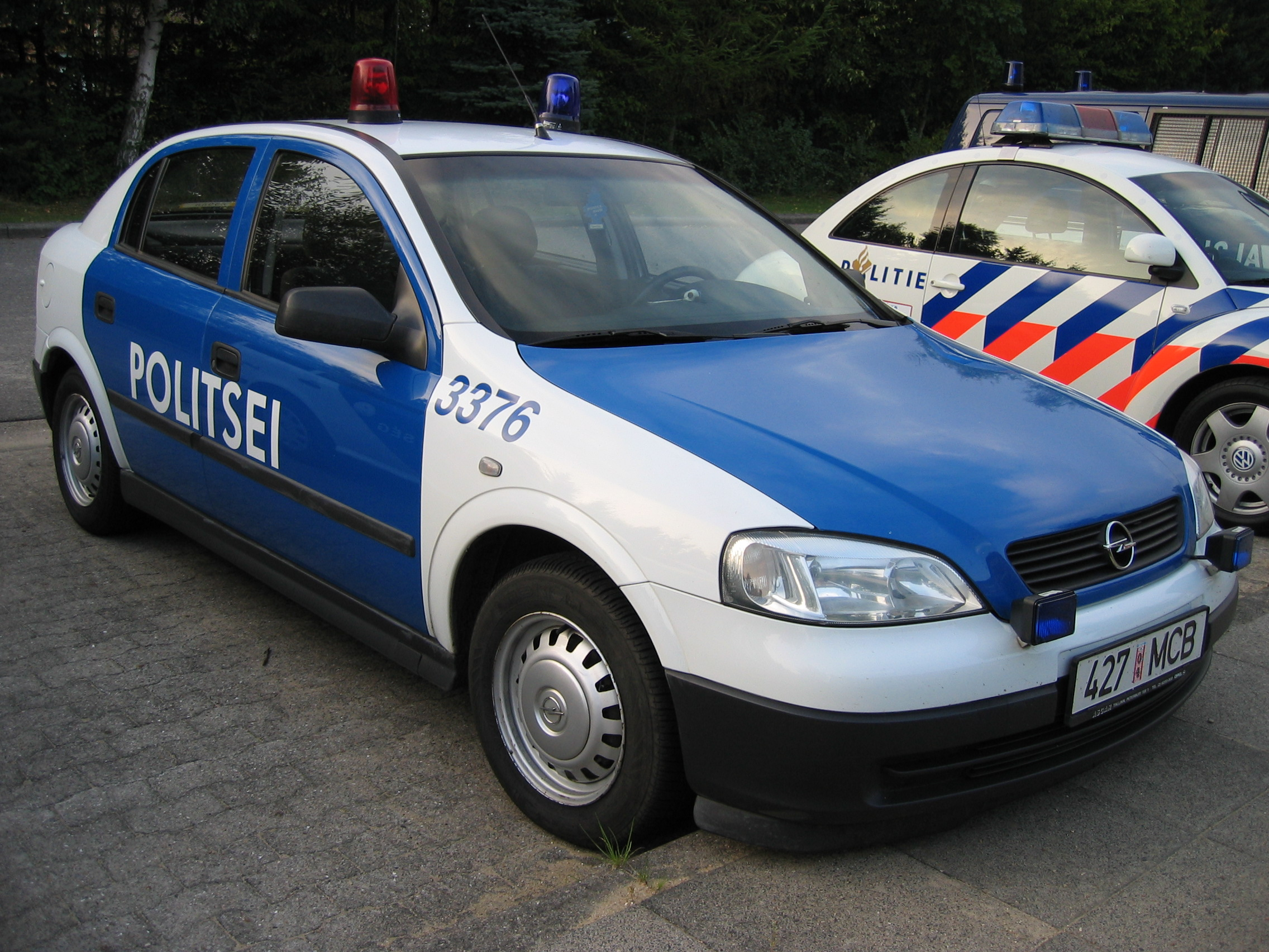 Opel Astra G - Estonian car police